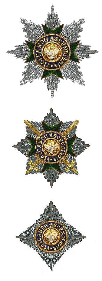 Orden vom Weissen Valken oder der Wachsamkeit Order of the White Falcon of Saxe-Weimar-Eisenach